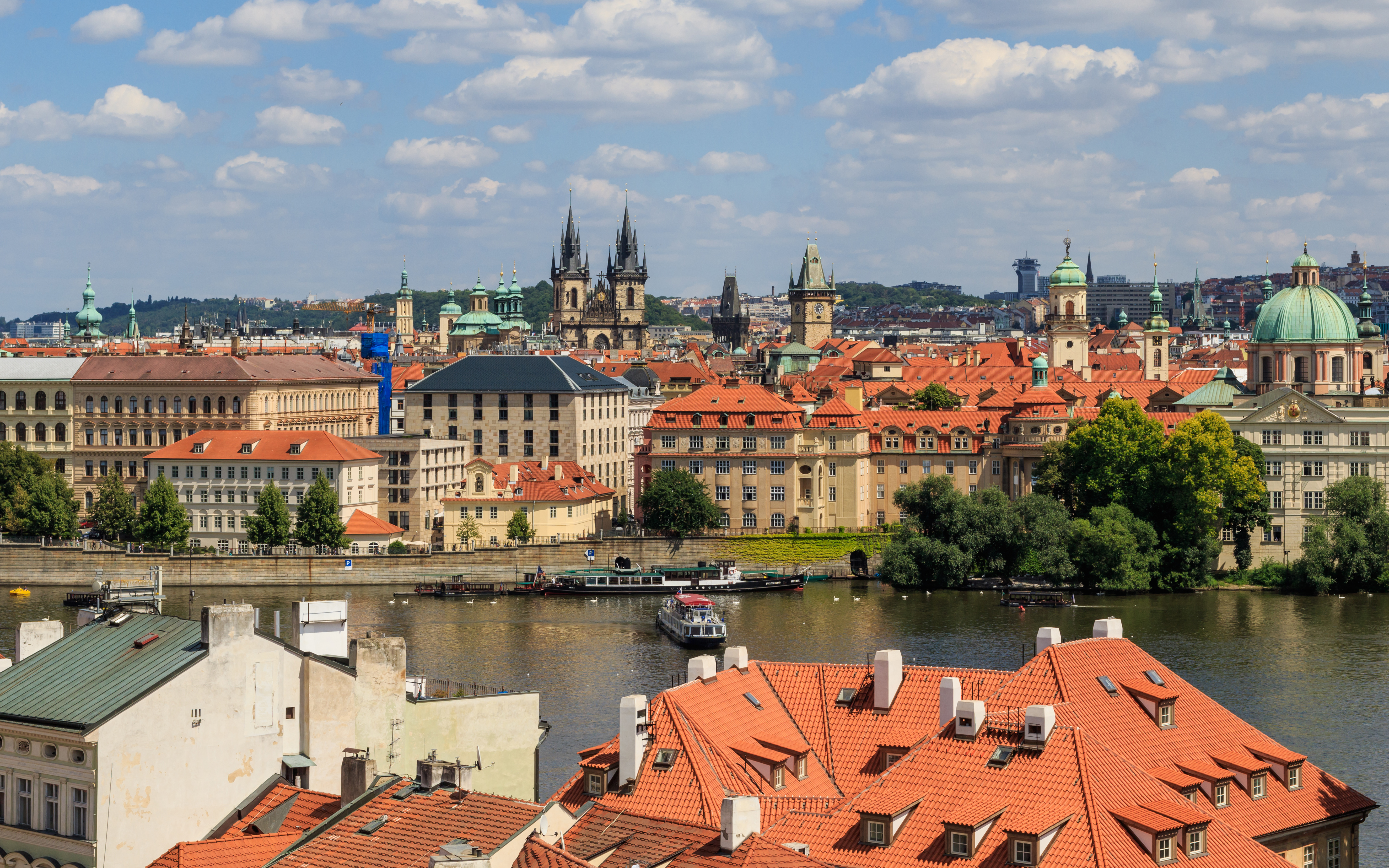 View from the Lesser Town tower of Charles Bridge in Prague (Czech Republic)